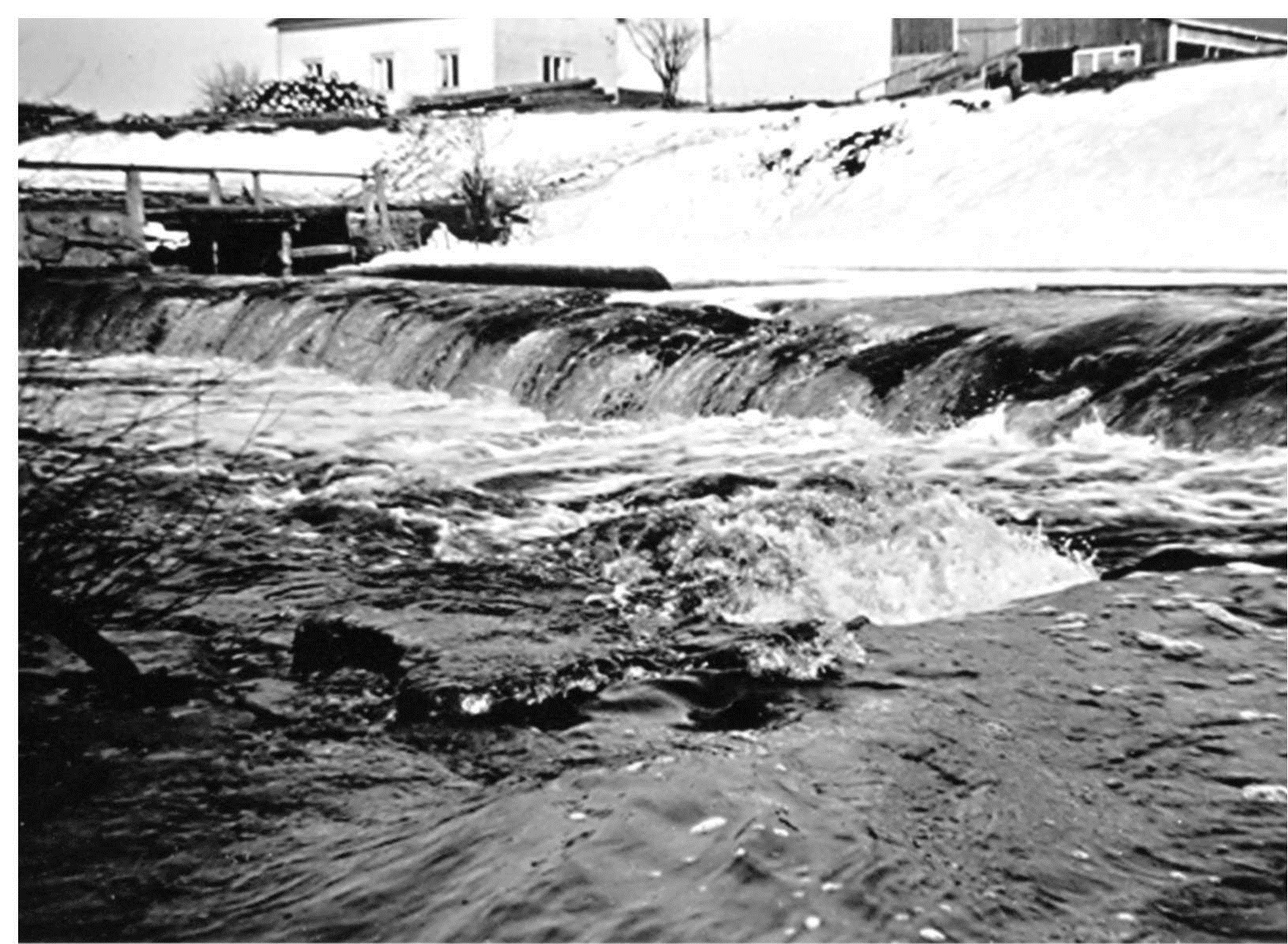 The Mattilankoski dam and road bridge seen from the northern shore of the river in the spring of 1956. On the background, a house painted white and a cowshed can be seen. Photo by Eero Petäjälehto.